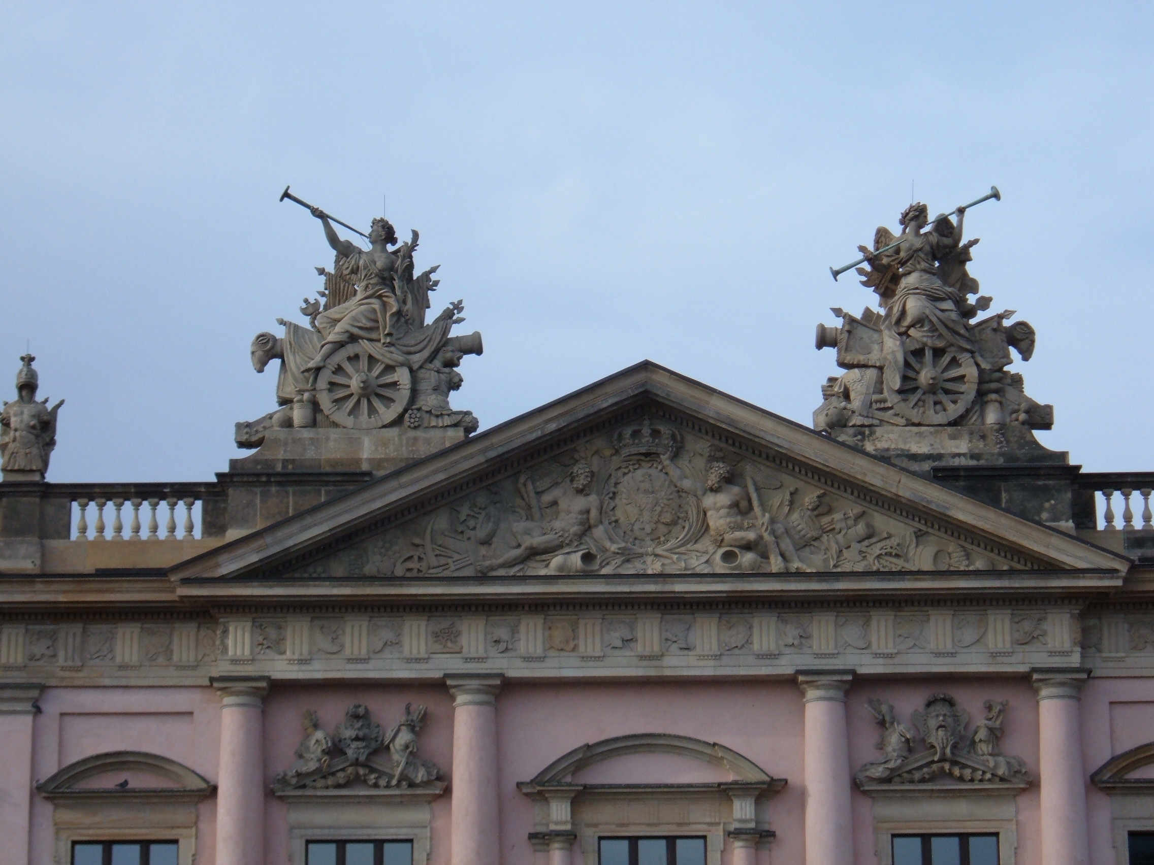 Sculptures on the roof of the Zeughau in Berlin, Germany.